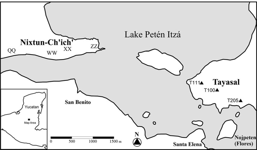 This is a generated map created by Dr. Timothy Pugh to portray different sections among the excavation.